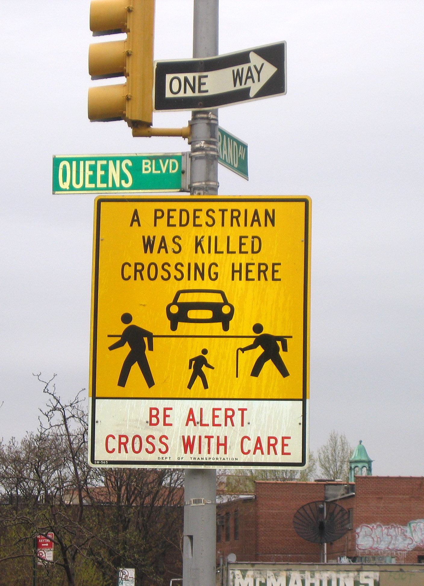 A pedestrian warning sign at Queens Boulevard and Grand Avenue in Elmhurst, Queens, New York City.